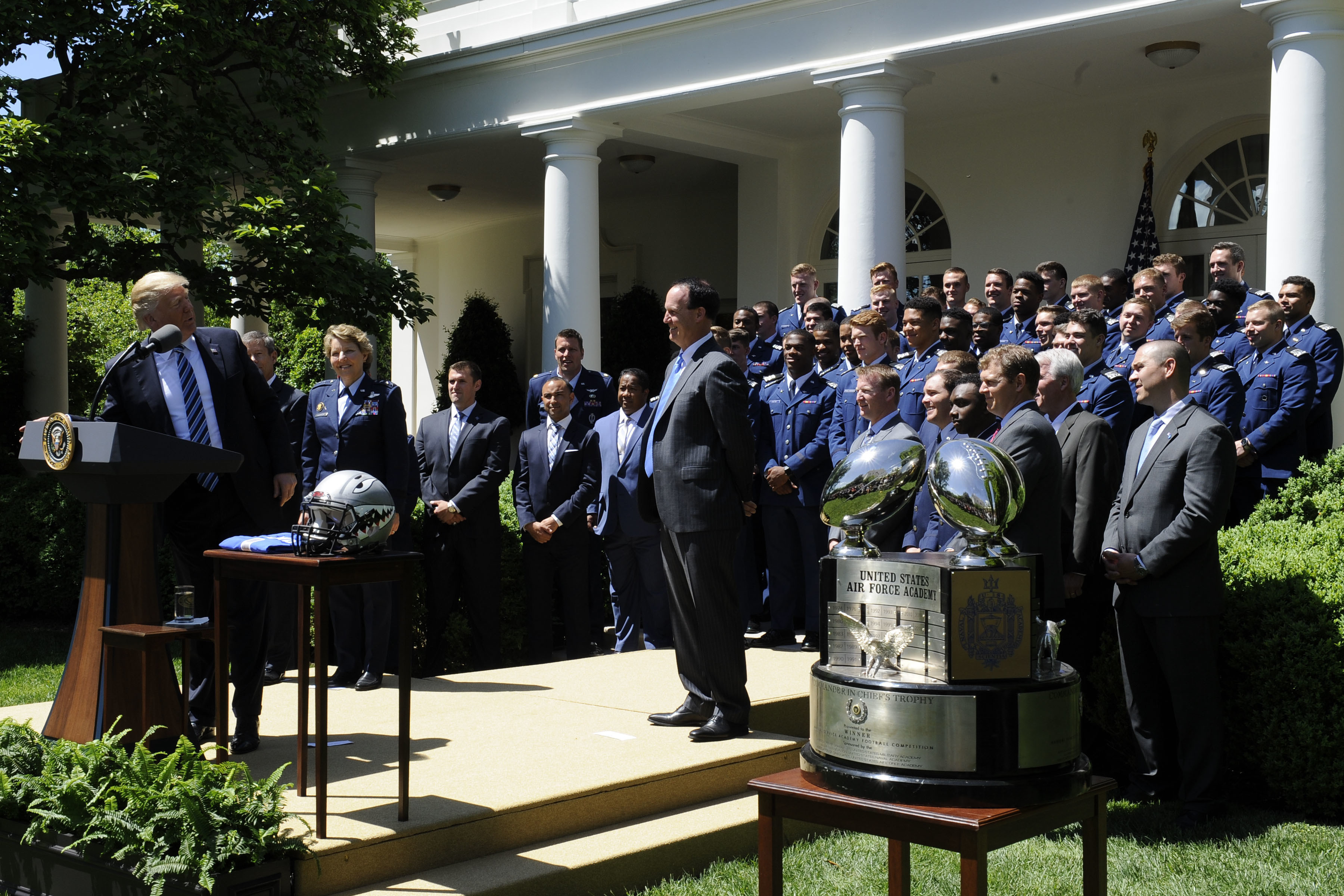 President Donald Trump congratulates the U.S. Air Force Academy football team with the Commander-in-Chief's Trophy at the White House May 2, 2017. With the team were Lt. Gen. Michelle D. Johnson, the superintendent of the U.S. Air Force Academy, Acting Secretary of the Air Force Lisa S. Disbrow and Air Force Chief of Staff Gen. David L. Goldfein. (U.S. Air Force photo/Staff Sgt. Jannelle McRae)